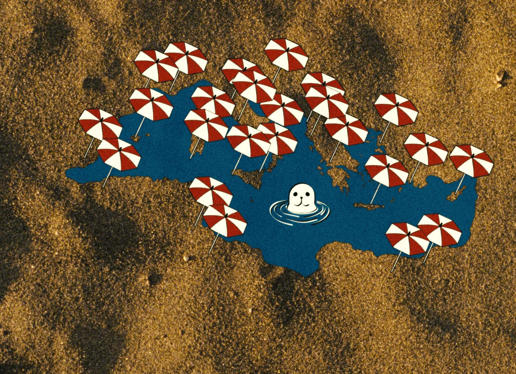 Still